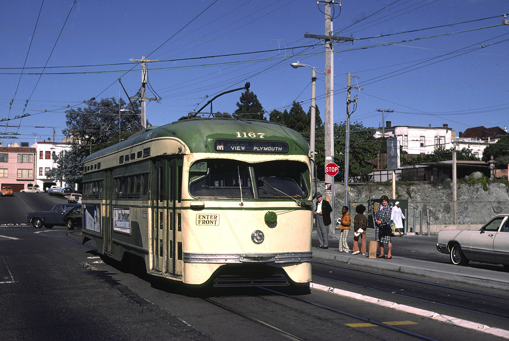 San Francisco PCC-type streetcar 1167 (built in 1946) southbound on Church Street just south of Duboce Street, outbound on route M. This was a diversion route used from 1972 to 1982 during construction of the Market Street Subway.